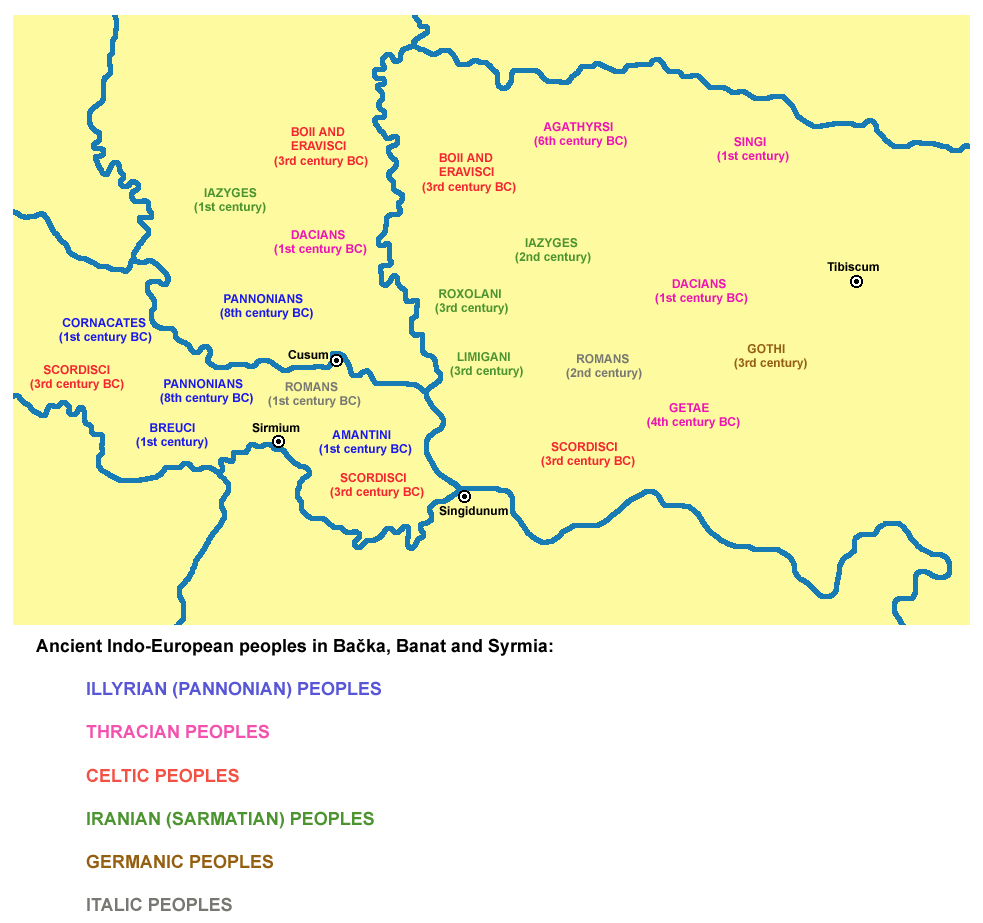 Historical map of ancient Indo-European peoples in Vojvodina.